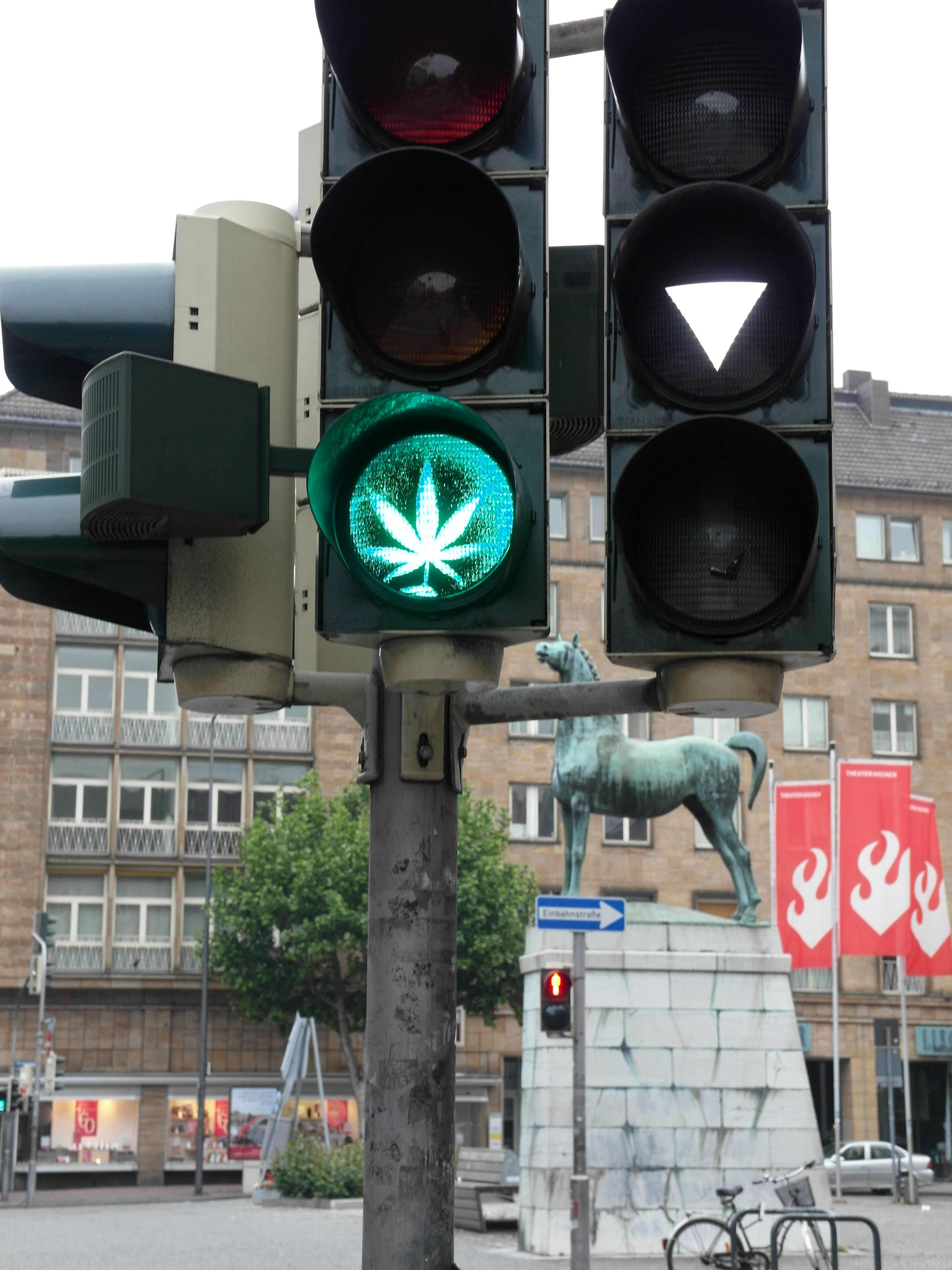 Cannabis propaganda at a traffic light in Aachen, Germany